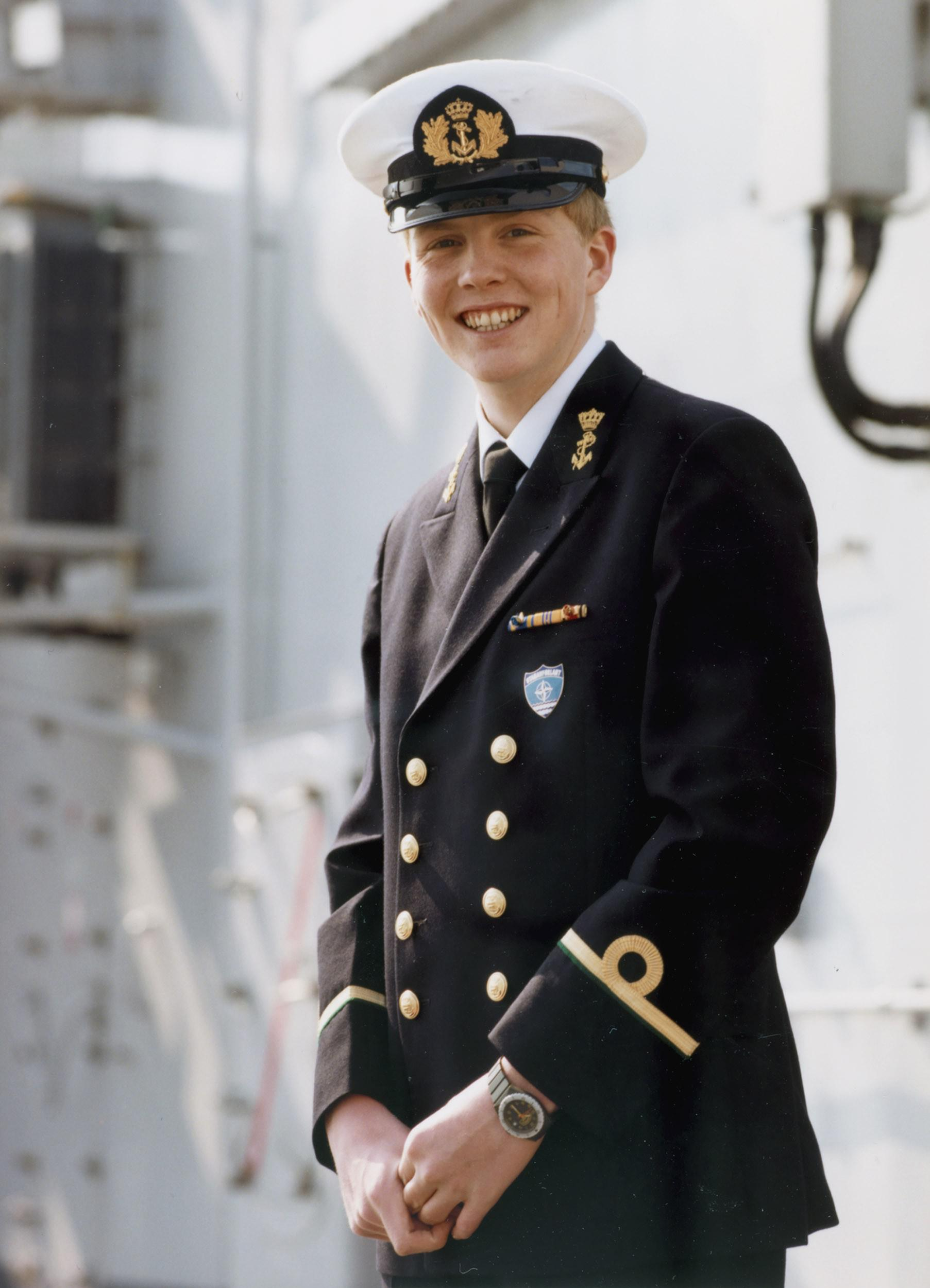 Prince Willem-Alexander of the Netherlands as sub-lieutenant of the Royal Netherlands Navy